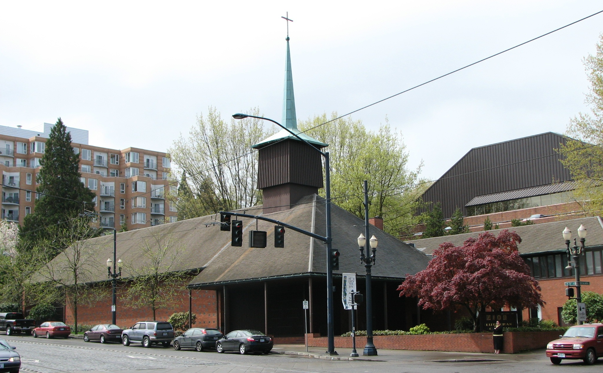 Zion Lutheran Church, in Portland, Oregon, United States, is listed on the US National Register of Historic Places.